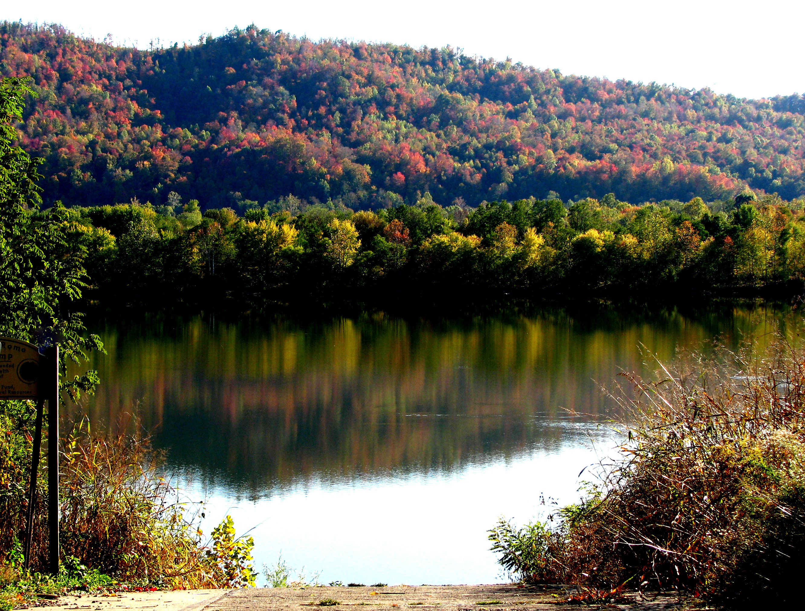 Rome, Ohio in Adams County is a small community (population 117 according to the 2000 census) between US52 and the Ohio River. I walked around for a while with my camera ready to capture a barge that didn't come.